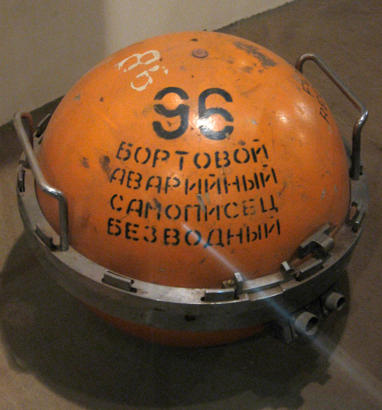 Flight recorder "МСРП-12-96" (Tu-16, Tu-104, Tu-134, An-12 ...)